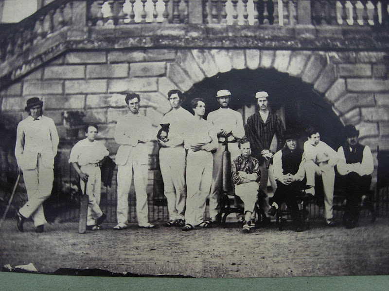 The Lyttelton XI - a cricket team composed of eleven members of the Lyttelton family for a match against Bromsgrove School. The match, which took place on 26 August 1867 at Hagley Park was won by the Lyttelton XI by ten wickets.